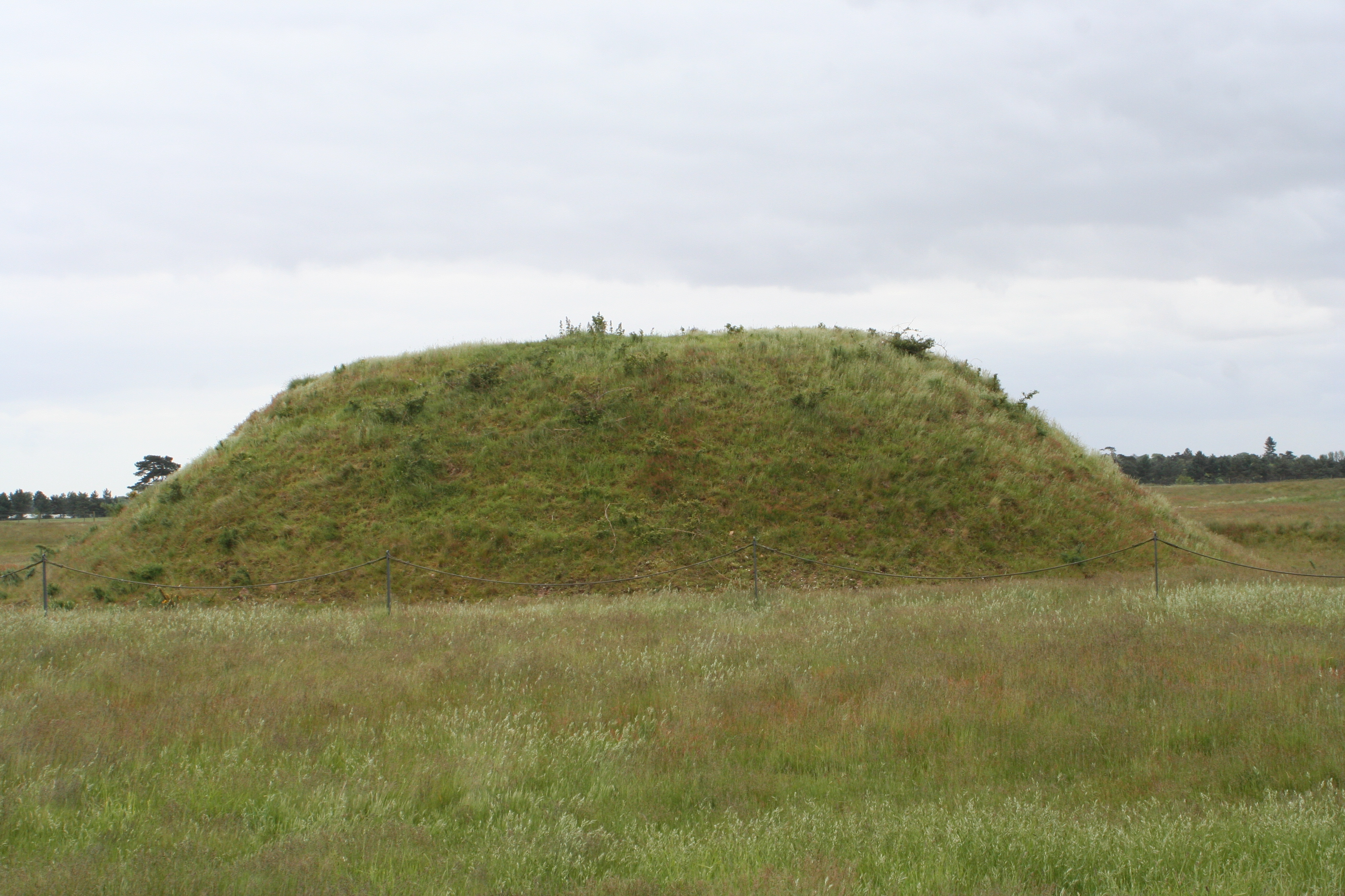 Burial mound 2 at Sutton Hoo, England.